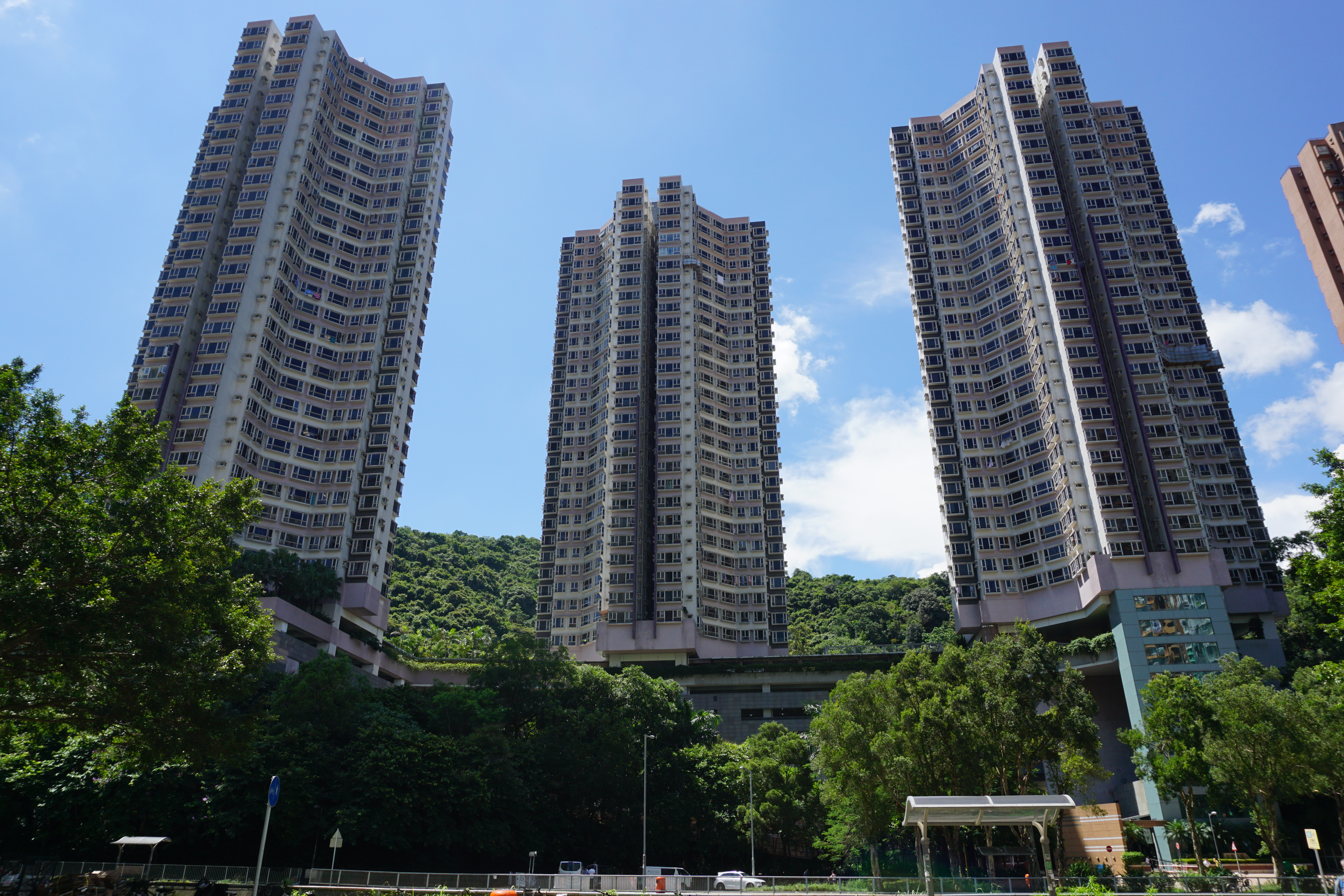 Granville Garden in Tai Wai, Hong Kong.